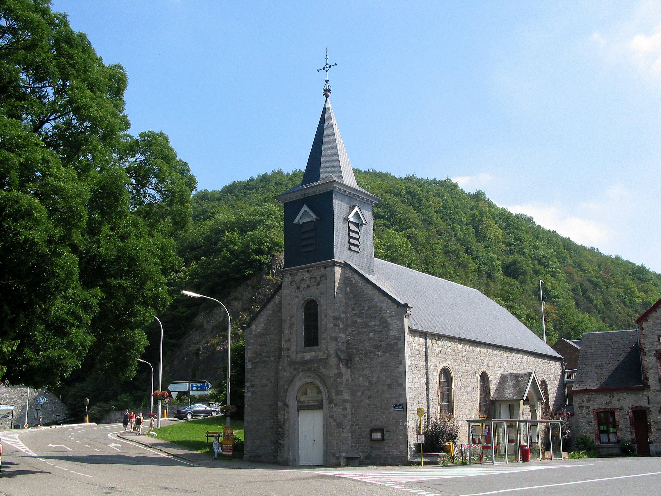 Hastière-Lavaux (Belgium), the St. Nichola’s church (1789).